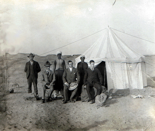 Expedition stuff of the American Museum of Natural History to the Fayum area 1907, Olsen, Granger, Ibraham, Osborn, David, Ferrar